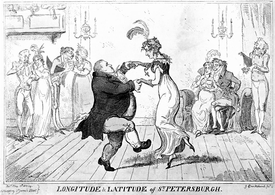 Longitude and Latitude of St Petersburgh, a caricature of Countess Lieven waltzing at Almack's by George Cruikshank, May 13th 1813. Countess Lieven was the one of the lady patronesses of Almack's, and was the wife of the Russian Ambassador. (St Petersburg was then the capital of the Russian Empire.) Two of the men in the background have collapsible bicornes tucked under their arms. Some of the musicians making the dance music are visible in a gallery at upper left.